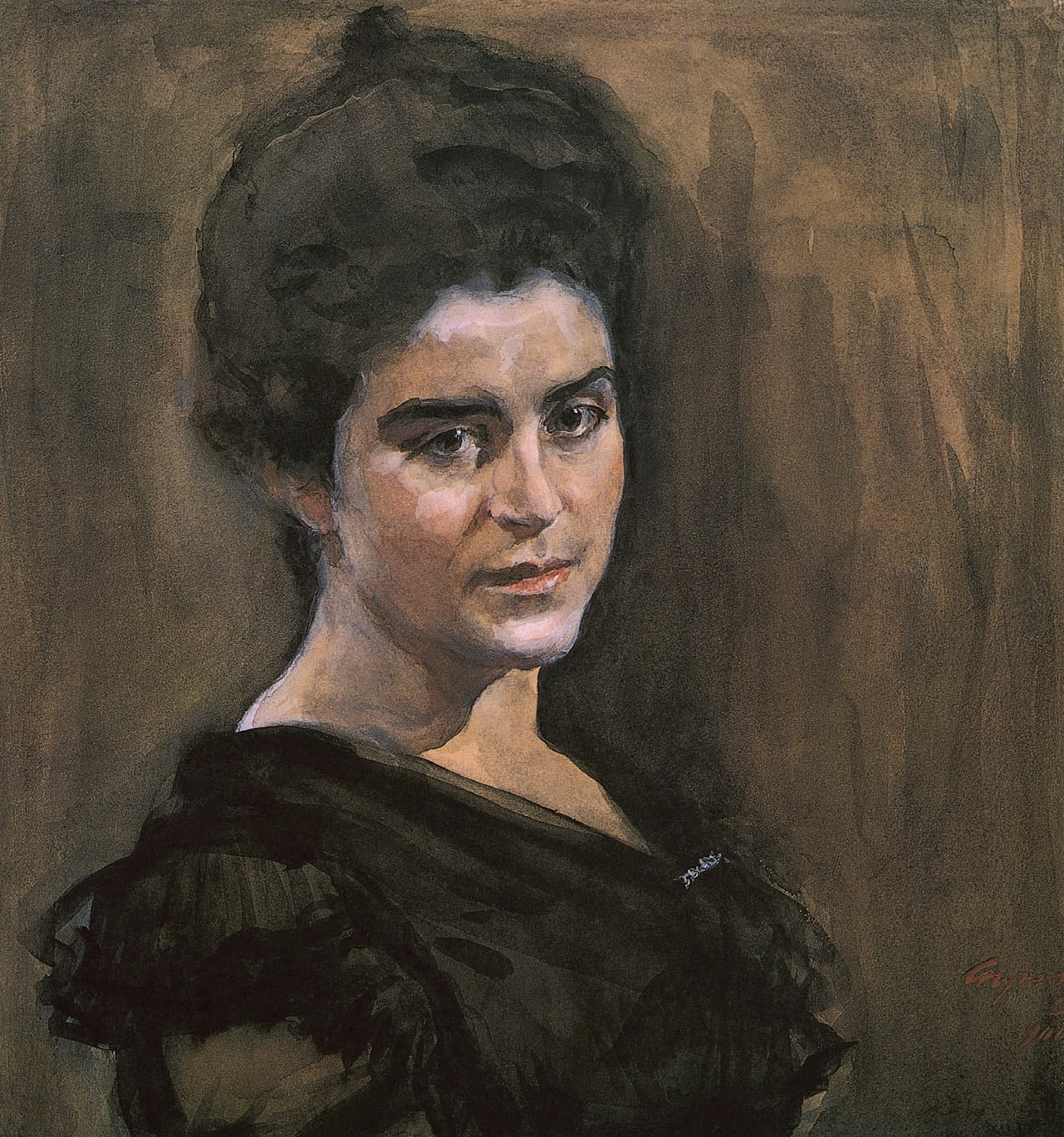 Portrait of Sophia Dragomirova-Lukomskaya. 1900. Watercolor, whitewash on cardboard. The Tretyakov Gallery, Moscow, Russia